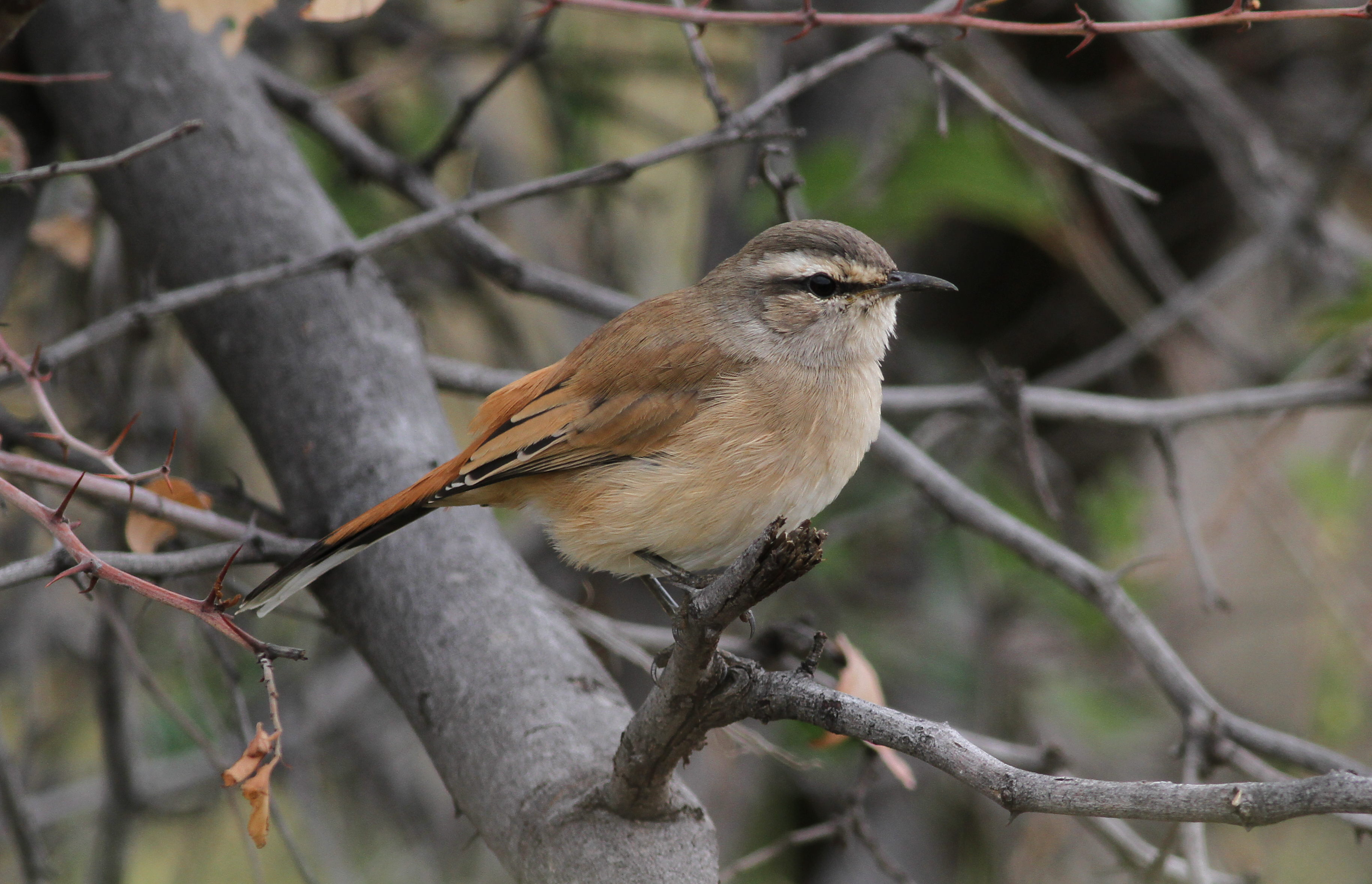 Kalahari scrub robin, Erythropygia paena at Pilanesberg National Park, Northwest Province, South Africa